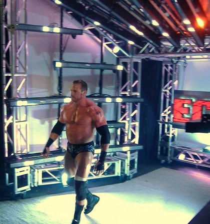 A picture of Andrew "Test" Martin that I took during his run in ecw @ a smackdown!/ecw taping in Cincinnati, Ohio.